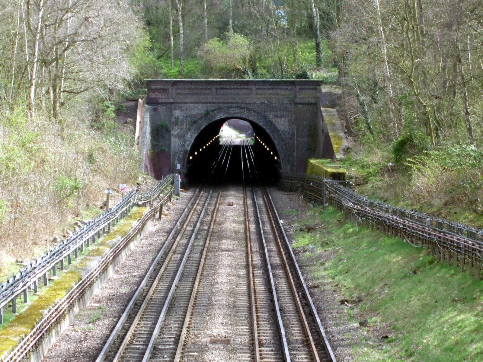 Western portal of Grange Hill Tunnel, just west of the tube station. Built by the GER in 1903. Photo taken from footbridge near Hycliffe Gardens. Tunnel length 260 yards.